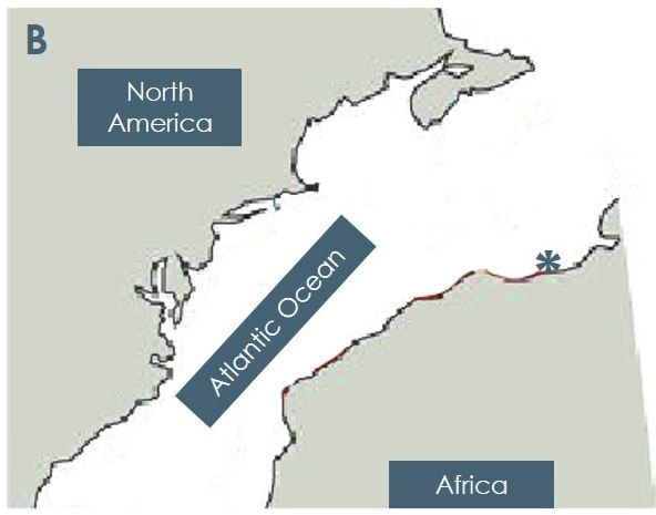 In Figure B, continued rifting resulted in the formation of the Atlantic Ocean. (Adapted from Labails, et al, 2013)